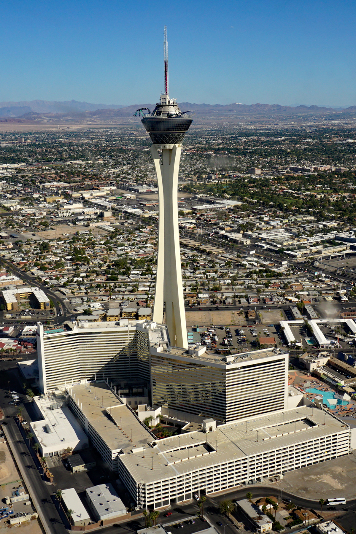 Aerial View of Casino Stratosphere Las Vegas